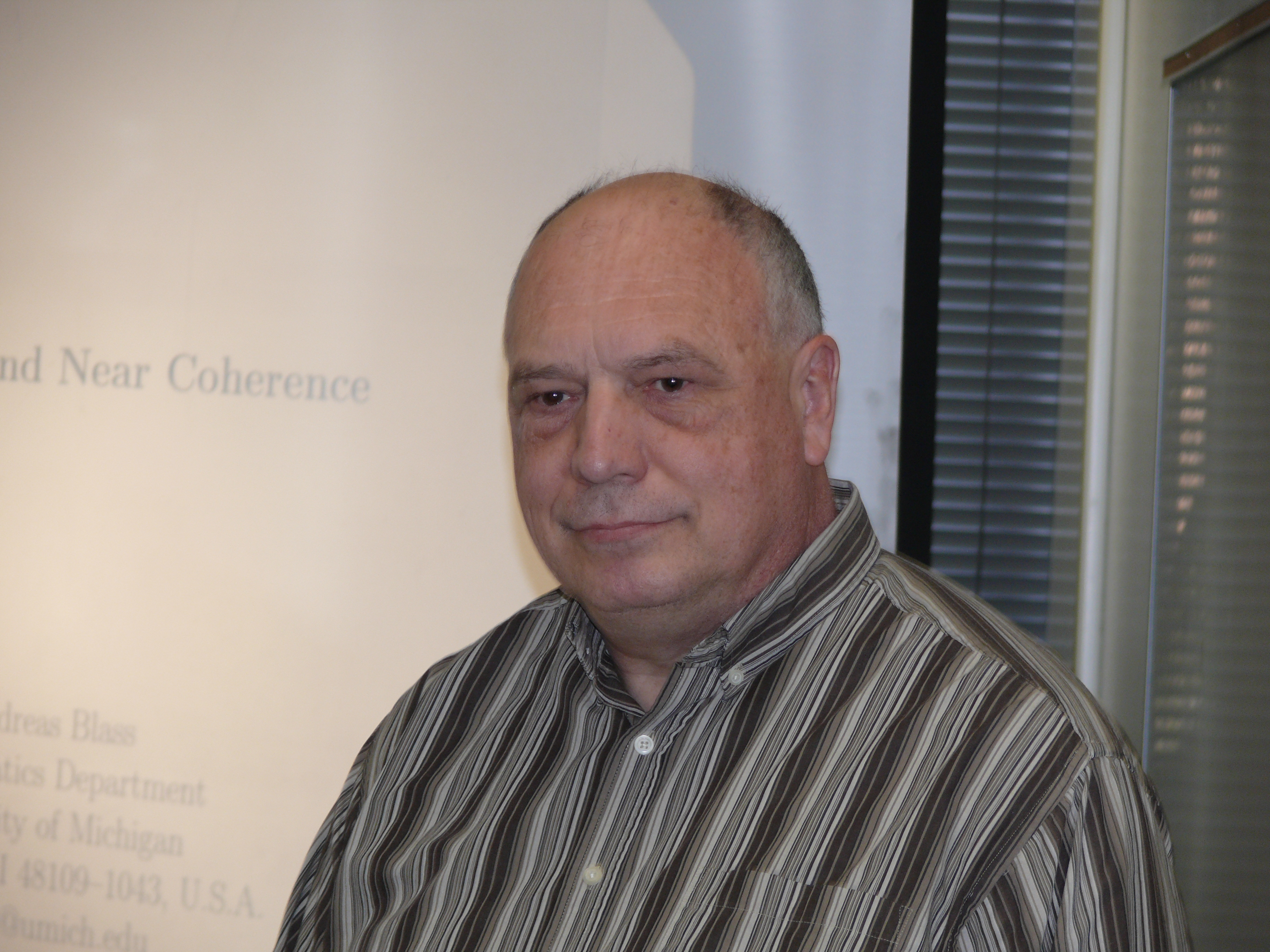 Prof. Andreas Blass giving a talk during the conference "Boise Extravaaganza in Set Theory BEST 17", Boise, Idaho